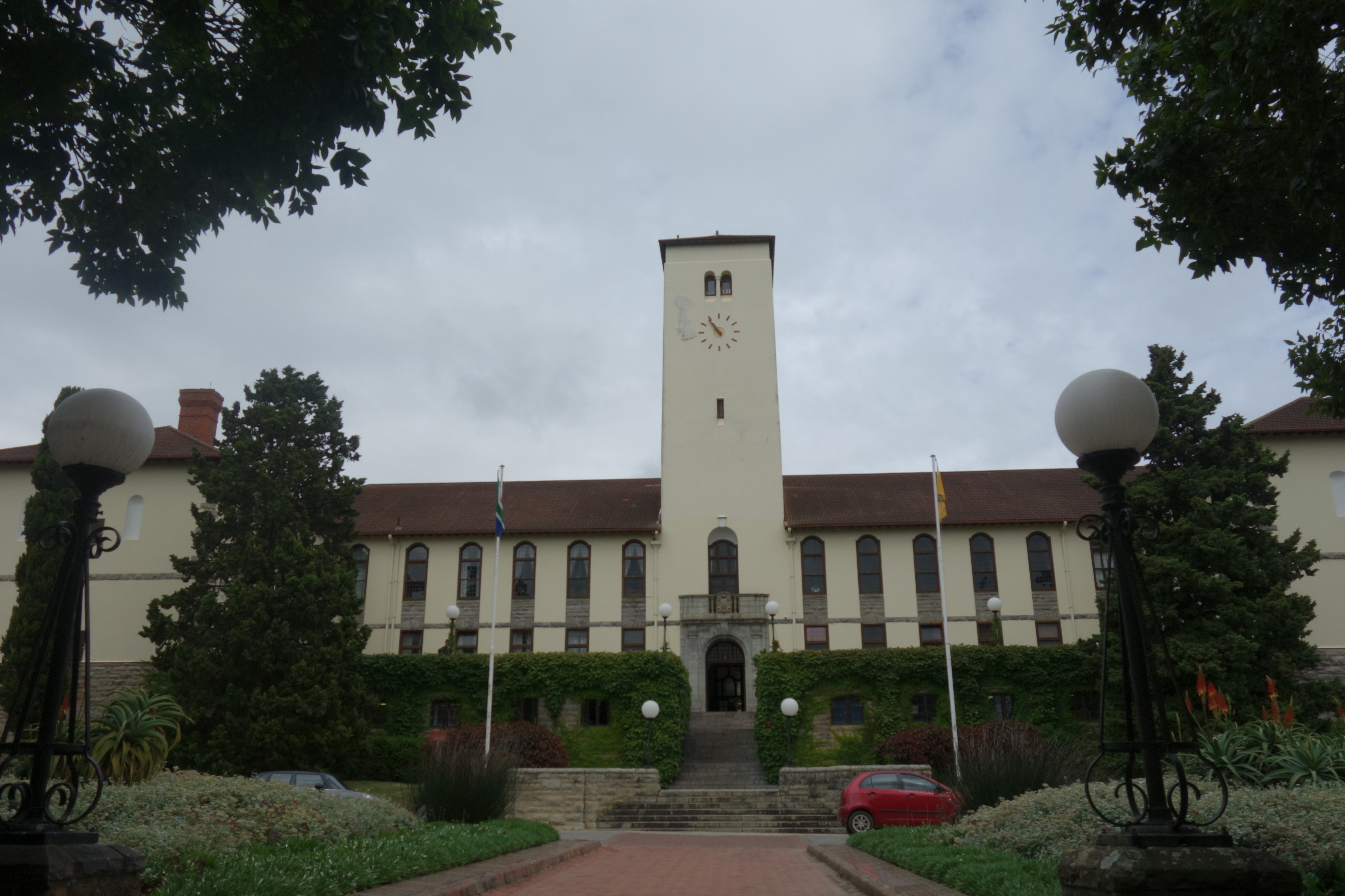 Main building with Herbert Baker clocktower, Rhodes University, Grahamstown (South Africa)